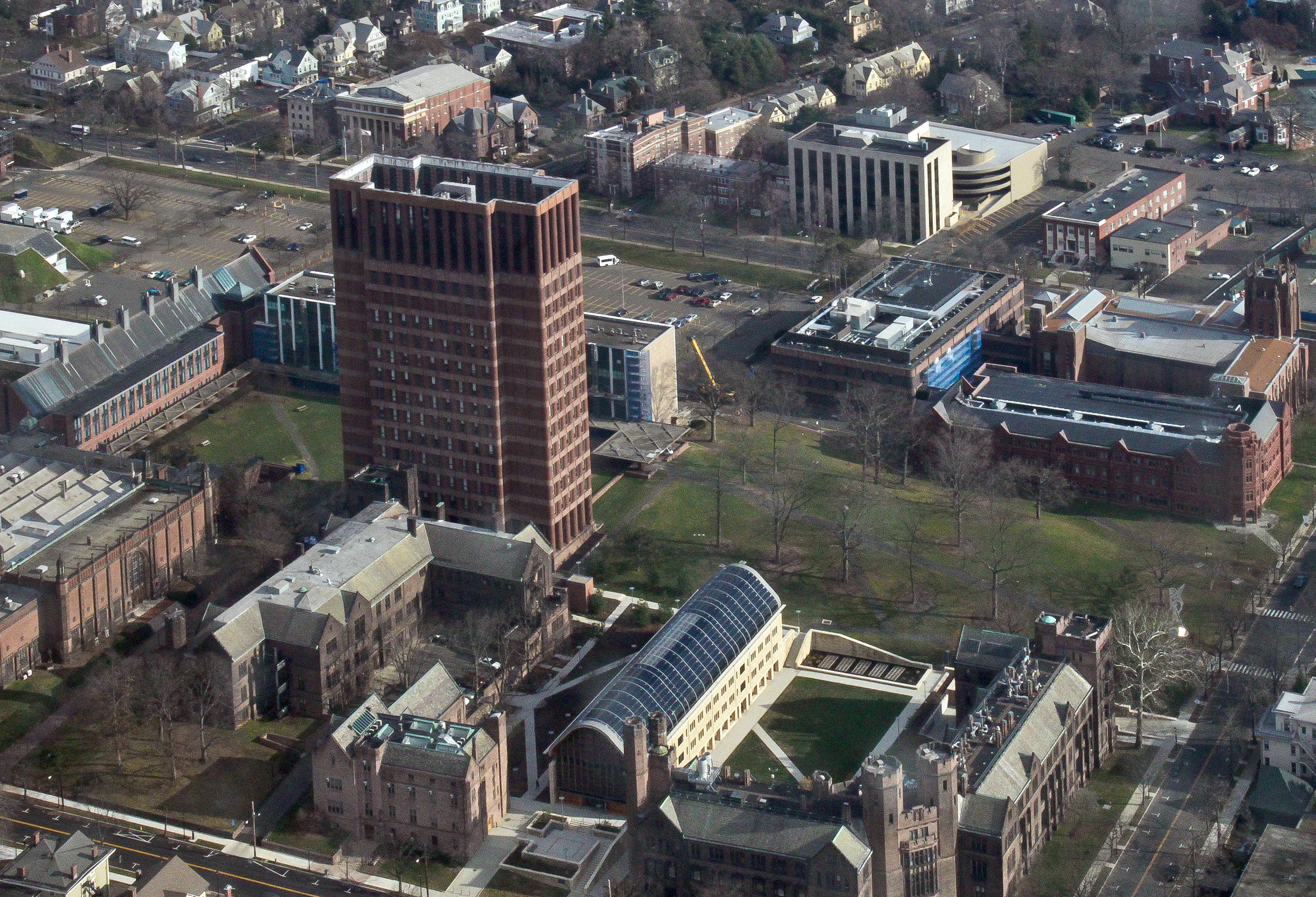 Yale University Science Hill